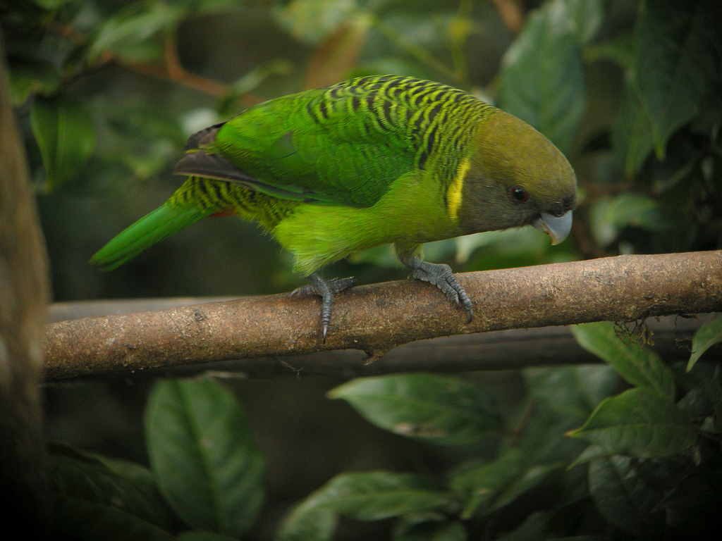 A male Brehm's Tiger Parrot in Papua New Guinea.